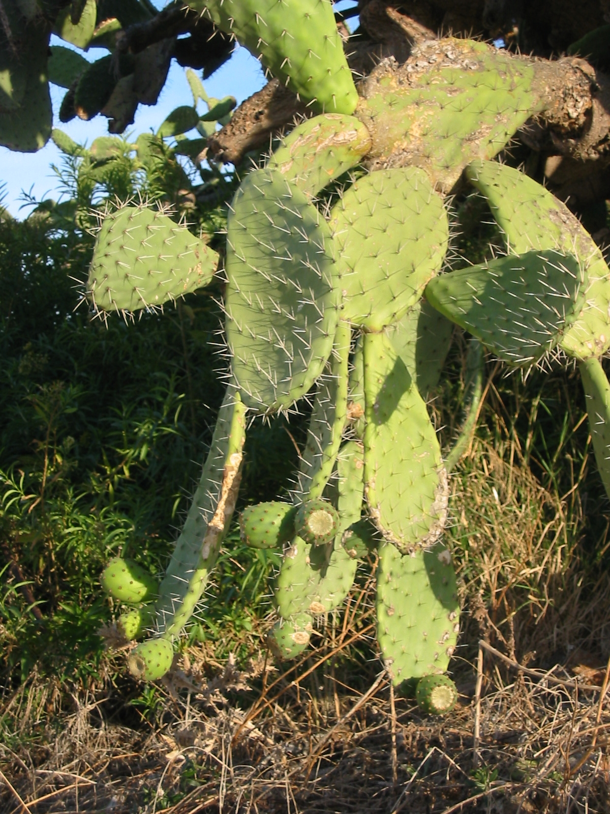 Chumbera, an Andalusian variety of Opuntia, showing fruits known as Higos Chumbos. Photo by E Asterion u talking to me? 18:57, 30 August 2006 (UTC)